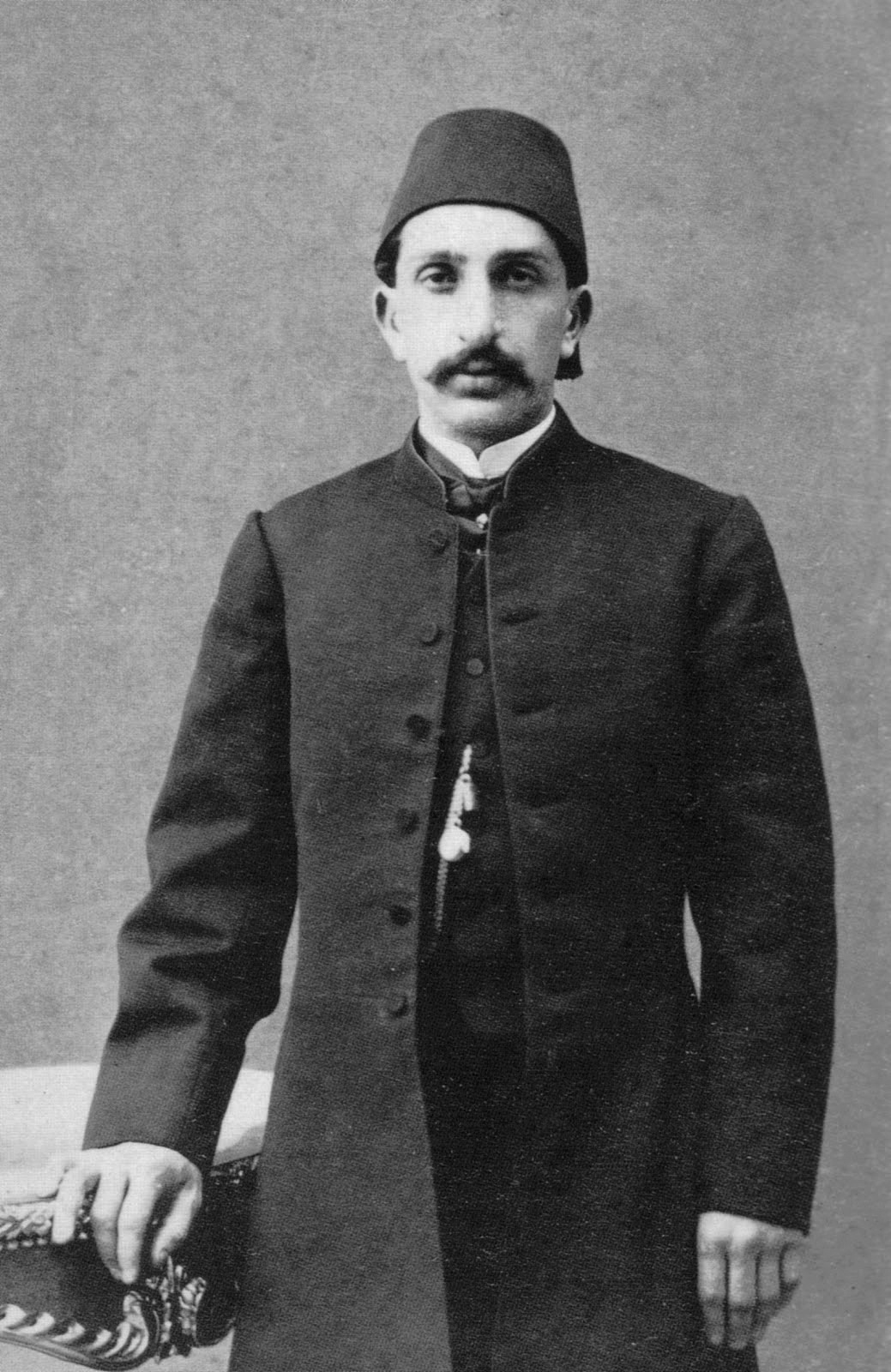 Portrait of Abdul Hamid II, 34th Sultan and 113rd Caliph of Islam of the Ottoman Empire (1842-1918).